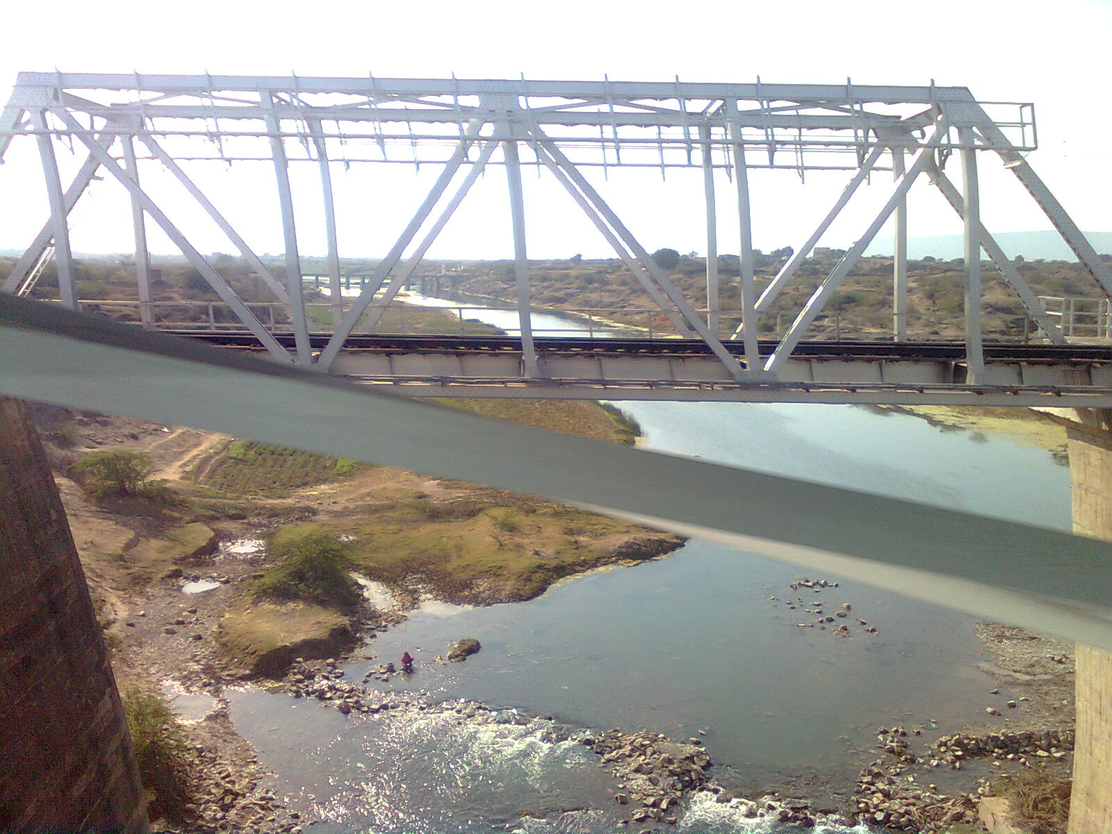 Mej River near Lakheri, near Sawai Madhopur, in Rajasthan, India